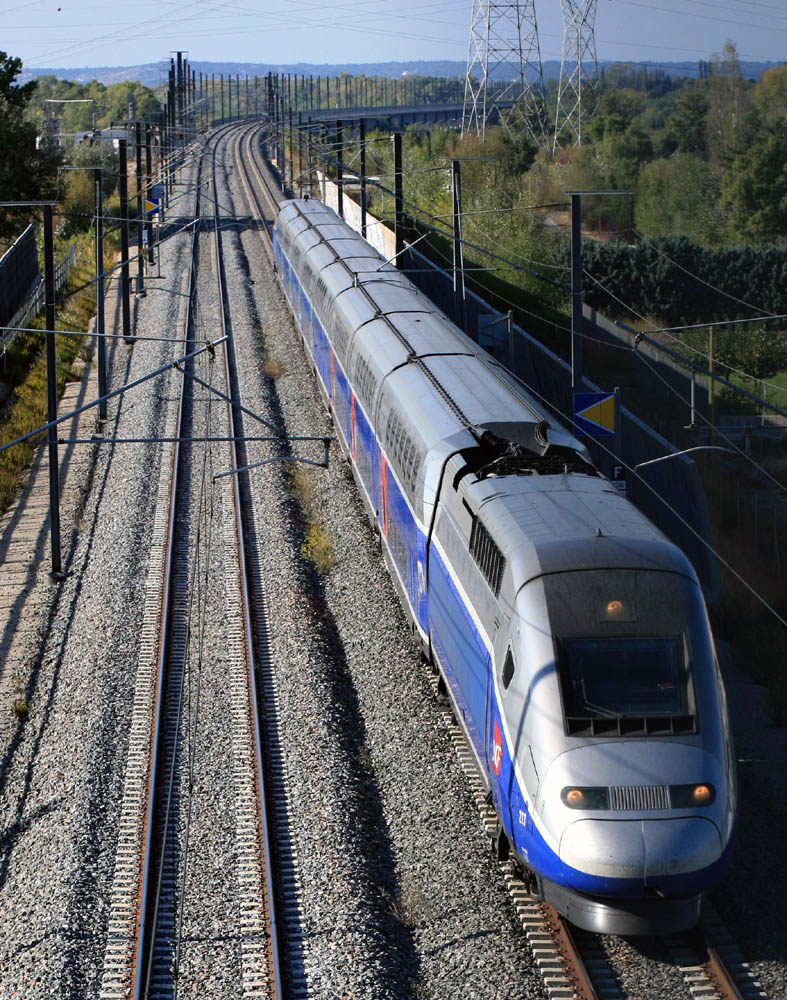 LGV, train / railroad near the Durance next to Cavaillon (84), France